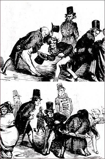 Universal Suspicion. Caricature by Gustave Doré.